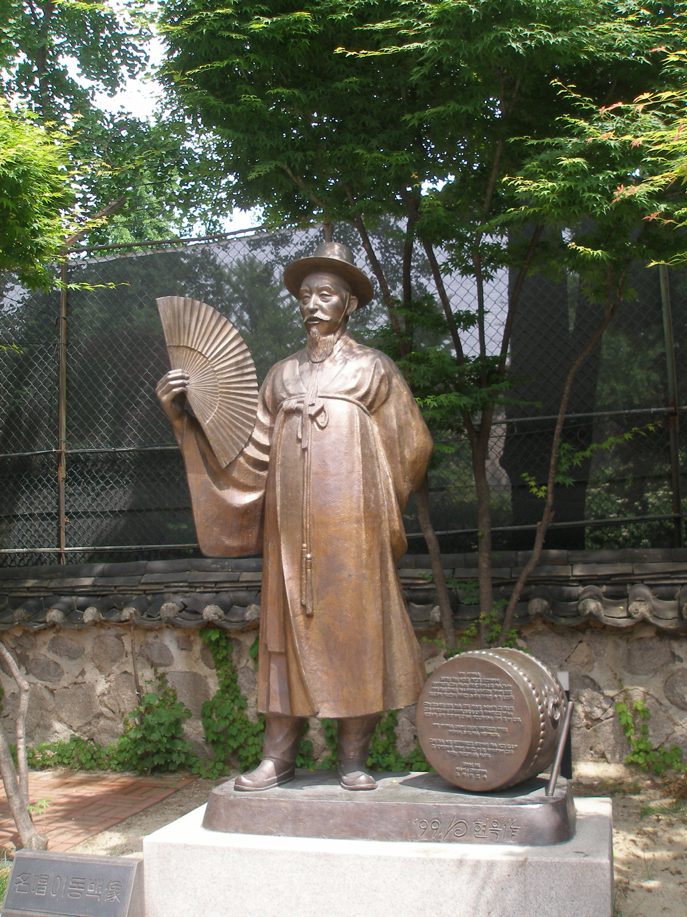 Outcommings of Wikipedia takes Jeongdong 위키백과:위키백과, 정동을 찍다에서 찍은 사진 LEE Dongbaek, Traditional Korean Singer